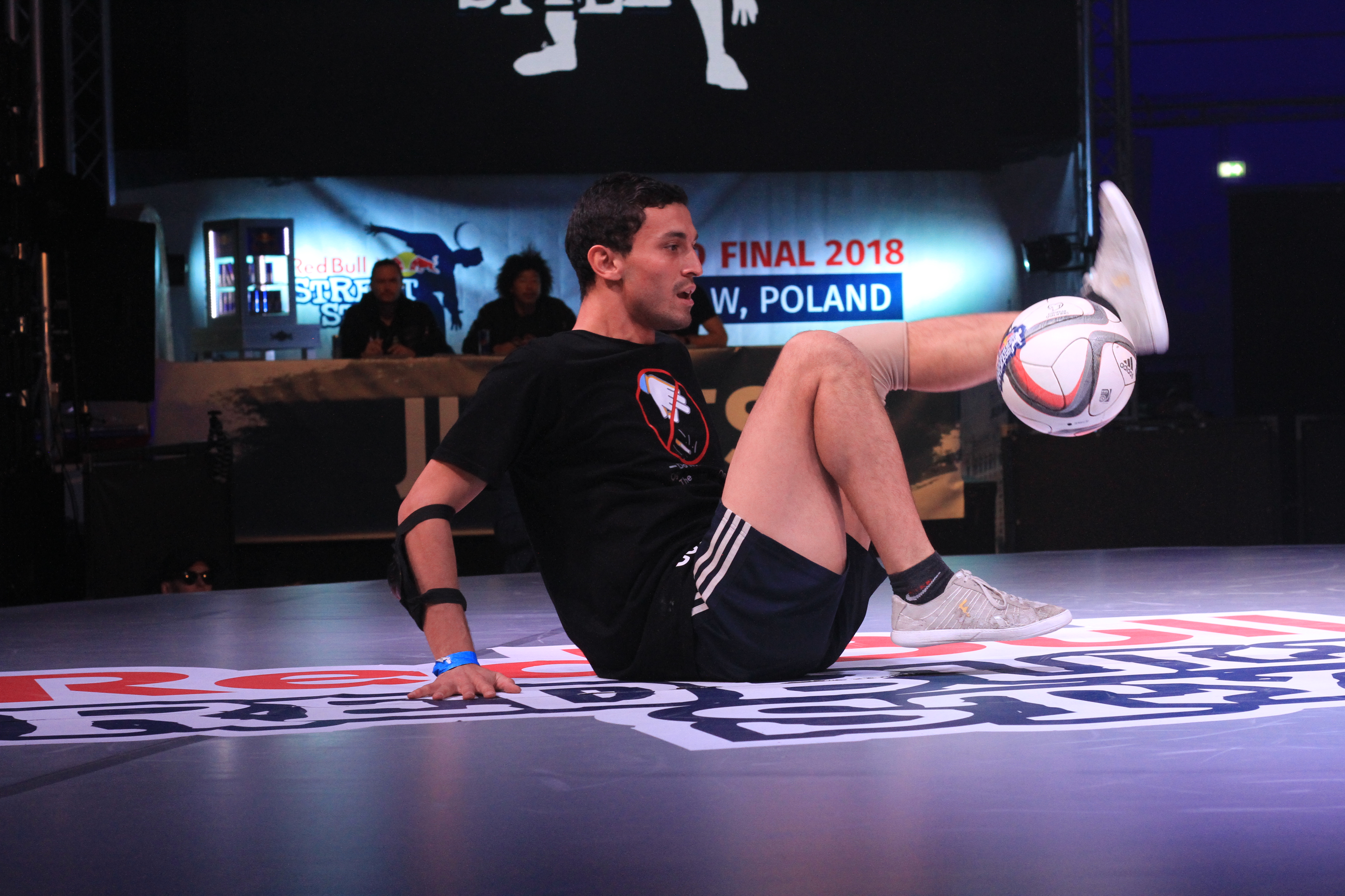 Ahmadreza in Redbull Sreet Style 2018 Poland